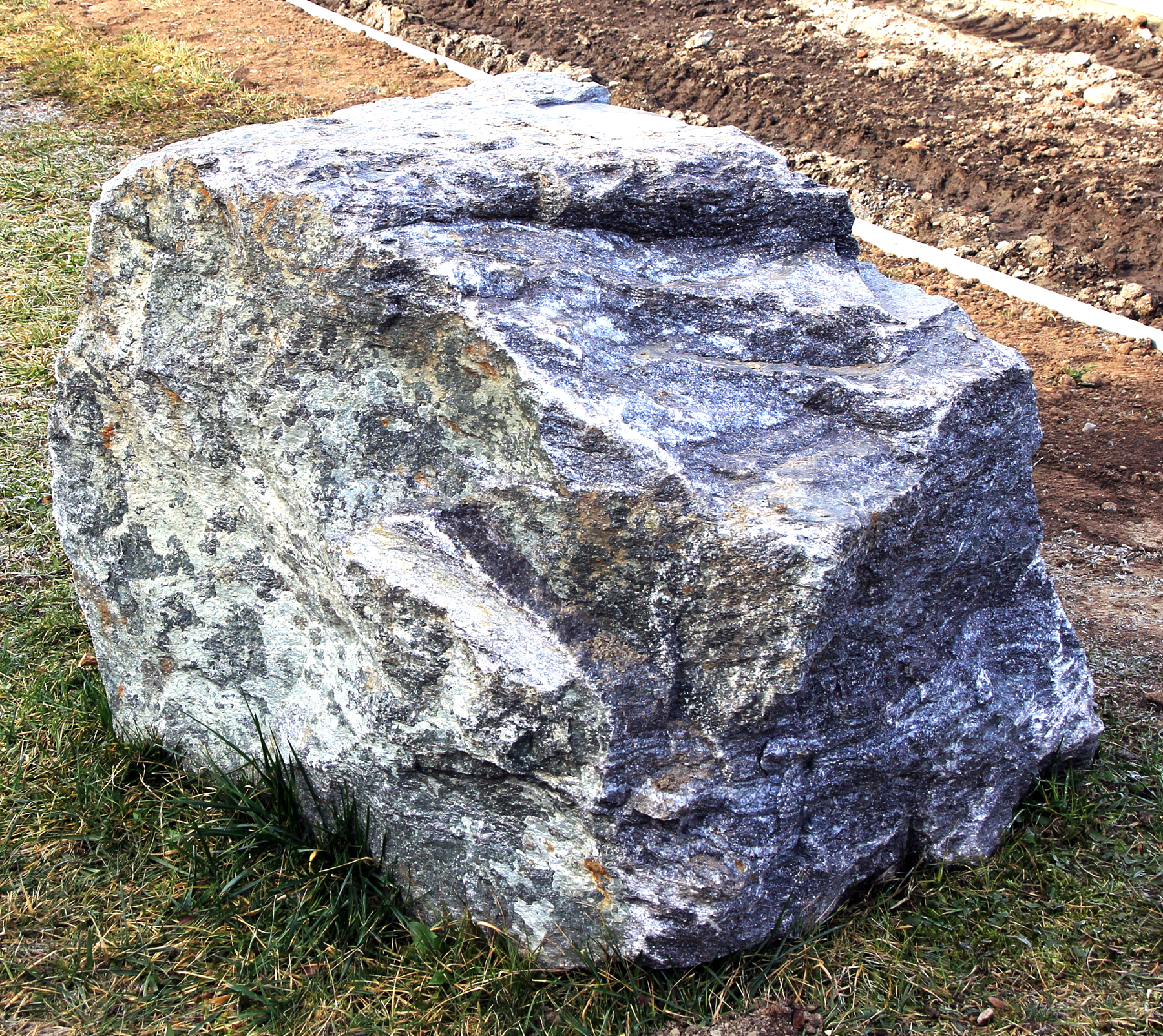 The rock migmatite from quarry near of the Czech town Plaňany exhibited in small geopark “Geologická zahrada” in Dolní Počernice, Prague, Czech Republic